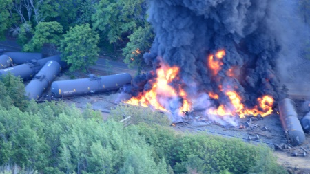 Rail cars burn near the Columbia River Gorge after a 100-car train derailed near the town of Mosier, Ore., June 3, 2016.